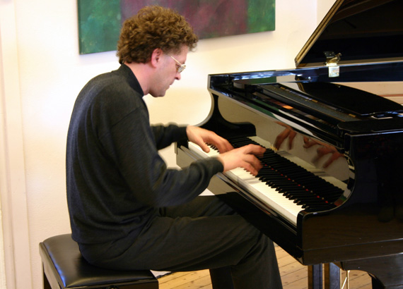 Photo of Geir Botnen